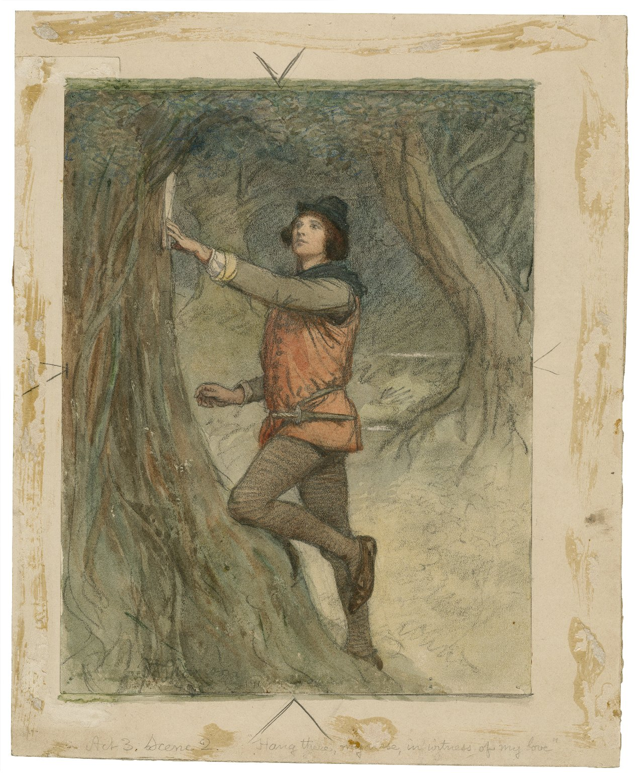 A watercolor illustration from As You Like It: Orlando pins love poems on the trees of the forest of Arden.